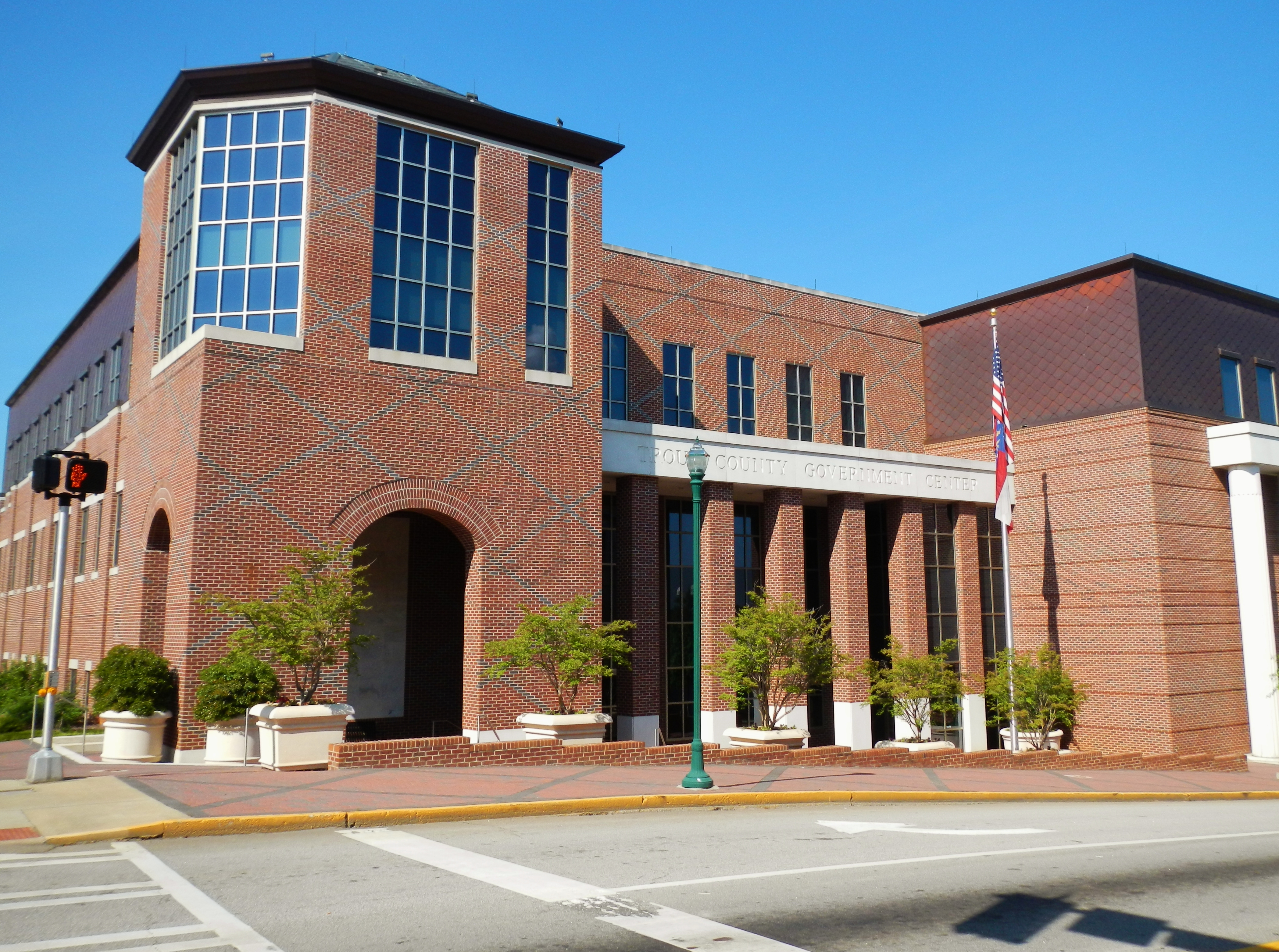 This is a photograph of the Troup County Government Center in LaGrange, Georgia.